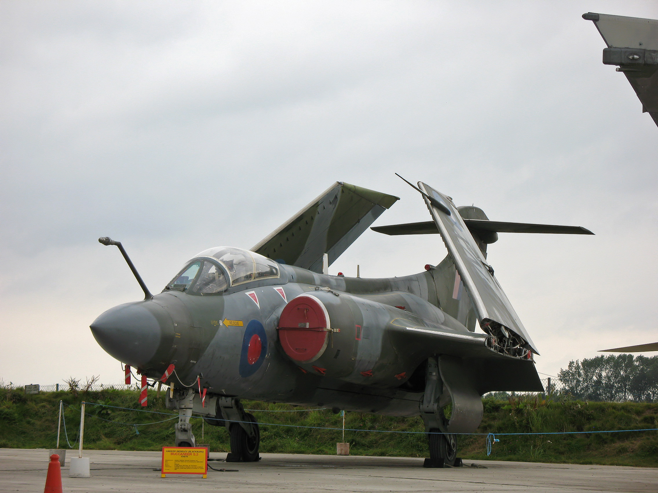 A Hawker Siddeley (Blackburn) Buccaneer S.2 photographed at RAF Elvington on the 18 of August 2007 by Brian Burnell.